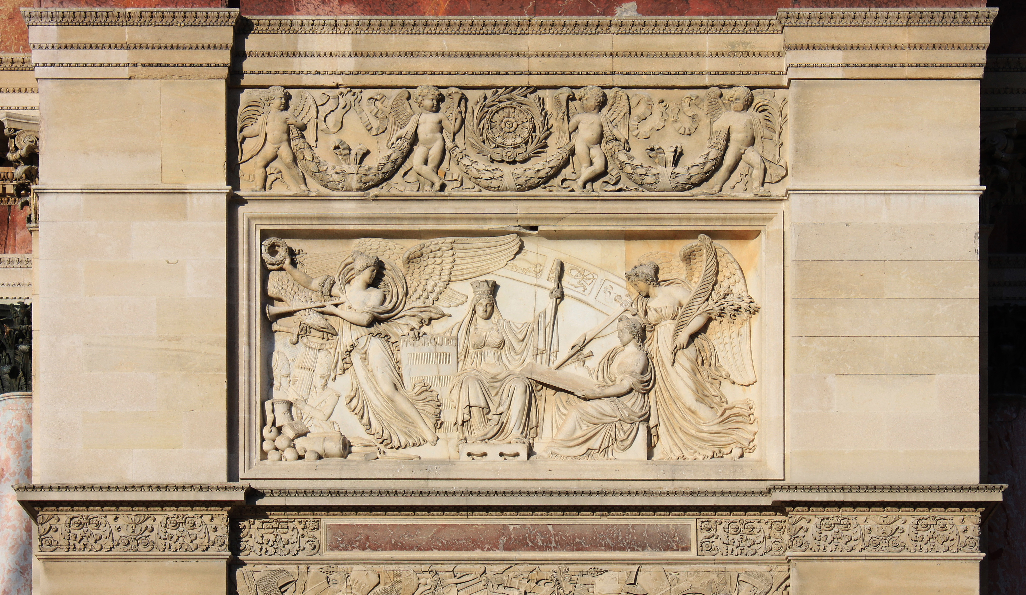 Bas-relief on the South facade of the Arc de triomphe du Carrousel, depicting the Peace of Pressburg, Paris. Work of Jacques-Philippe Le Sueur.